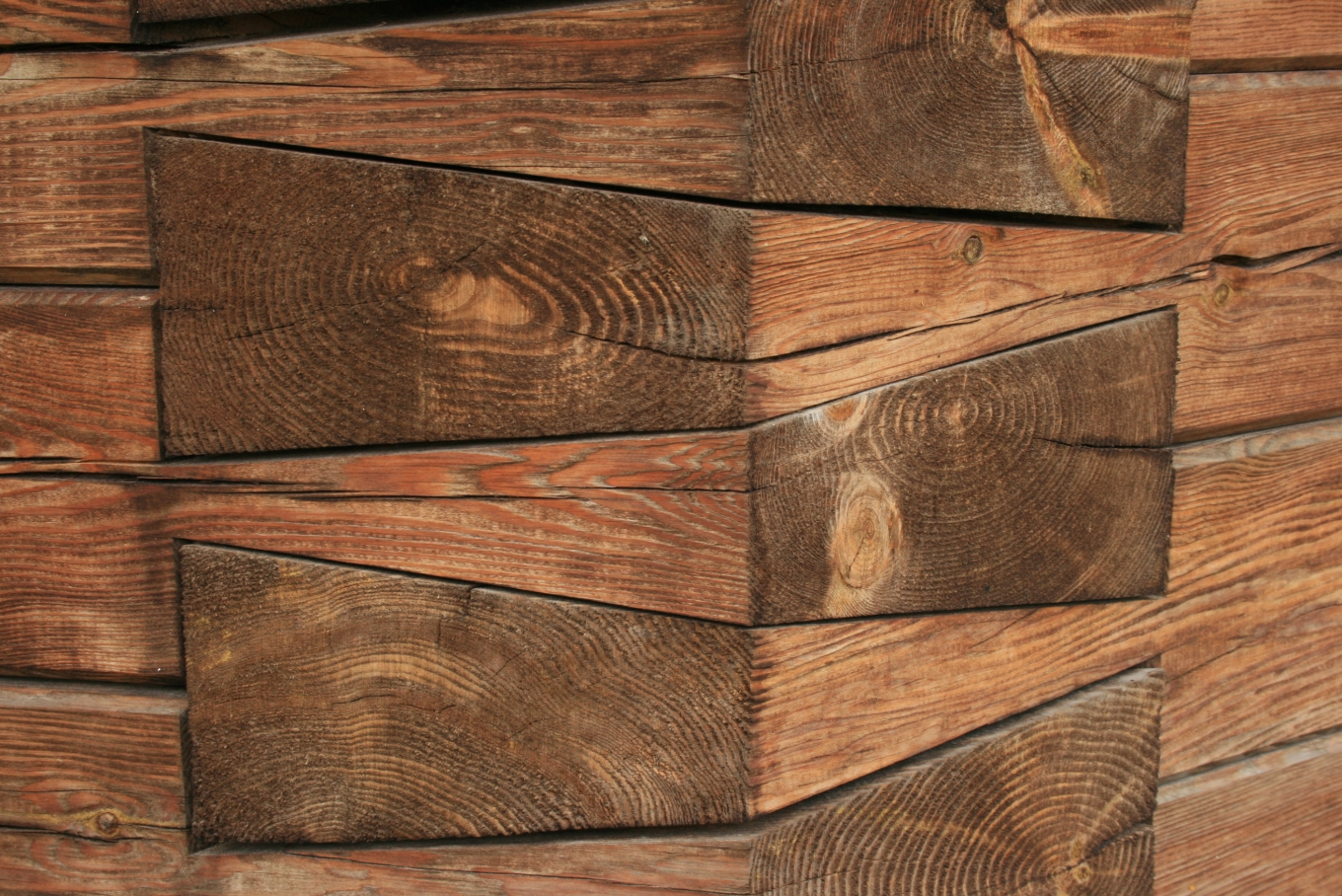 Corner joints. House at the village community "Dyssekilde" at Torup, Sealand, Denmark.